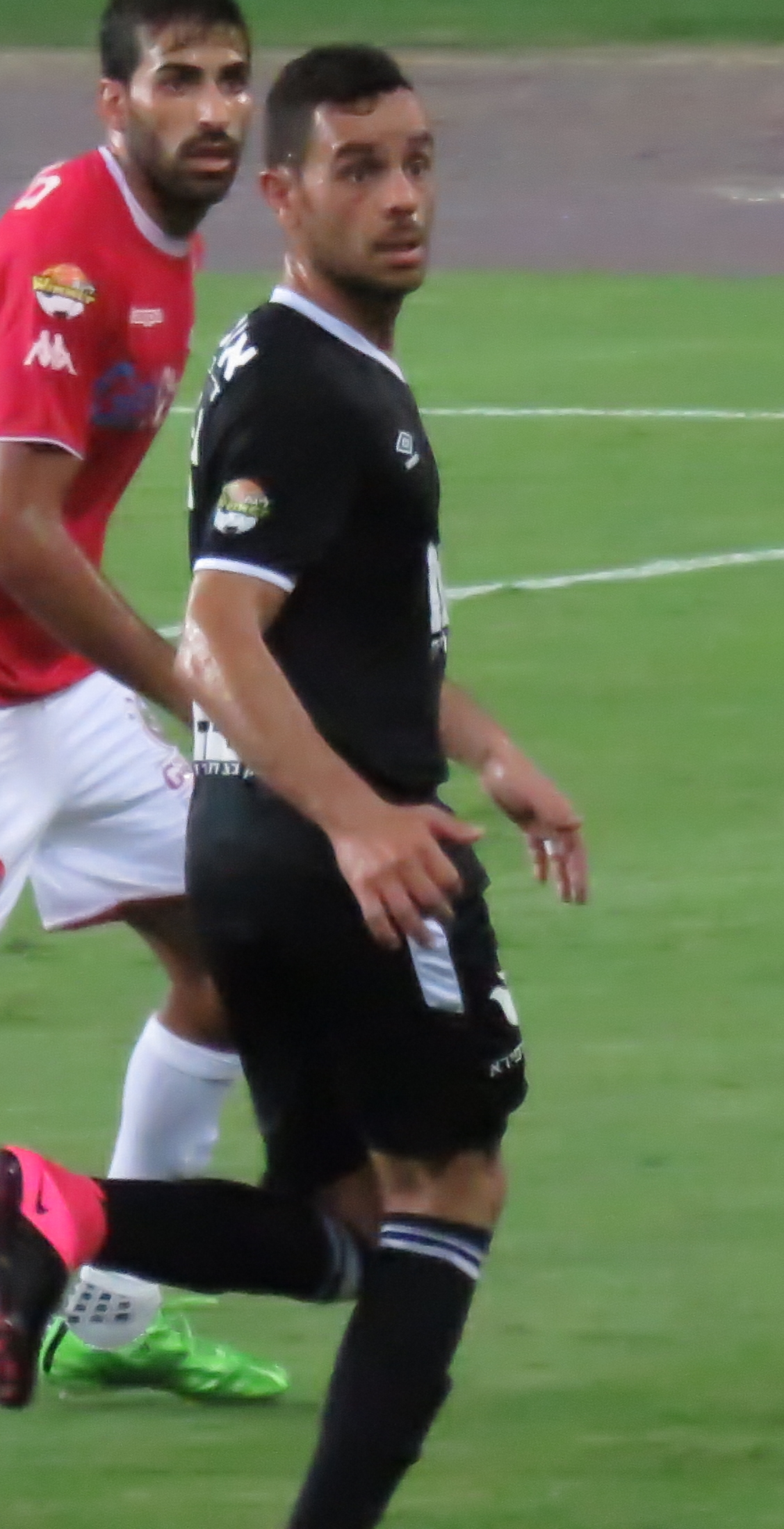 Hapoel Ra'anana vs. Hapoel Be'er Sheva - September 12, 2015